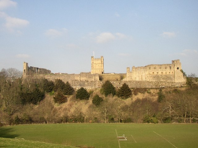 Richmond Castle. The castle, dating from 1071, sits above the River Swale.